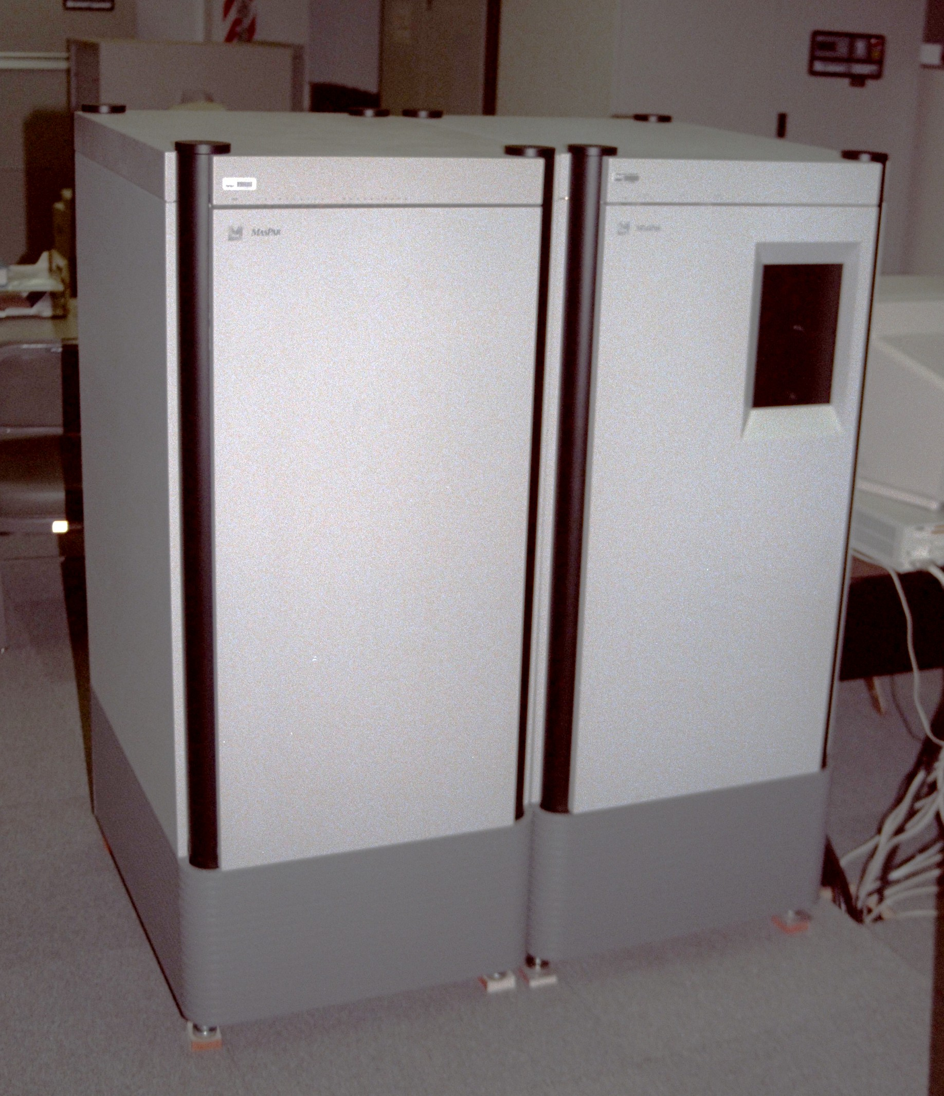 MasPar massively parallel supercomputer, at the Goddard Space Flight Center's Space Data and Computing Division.